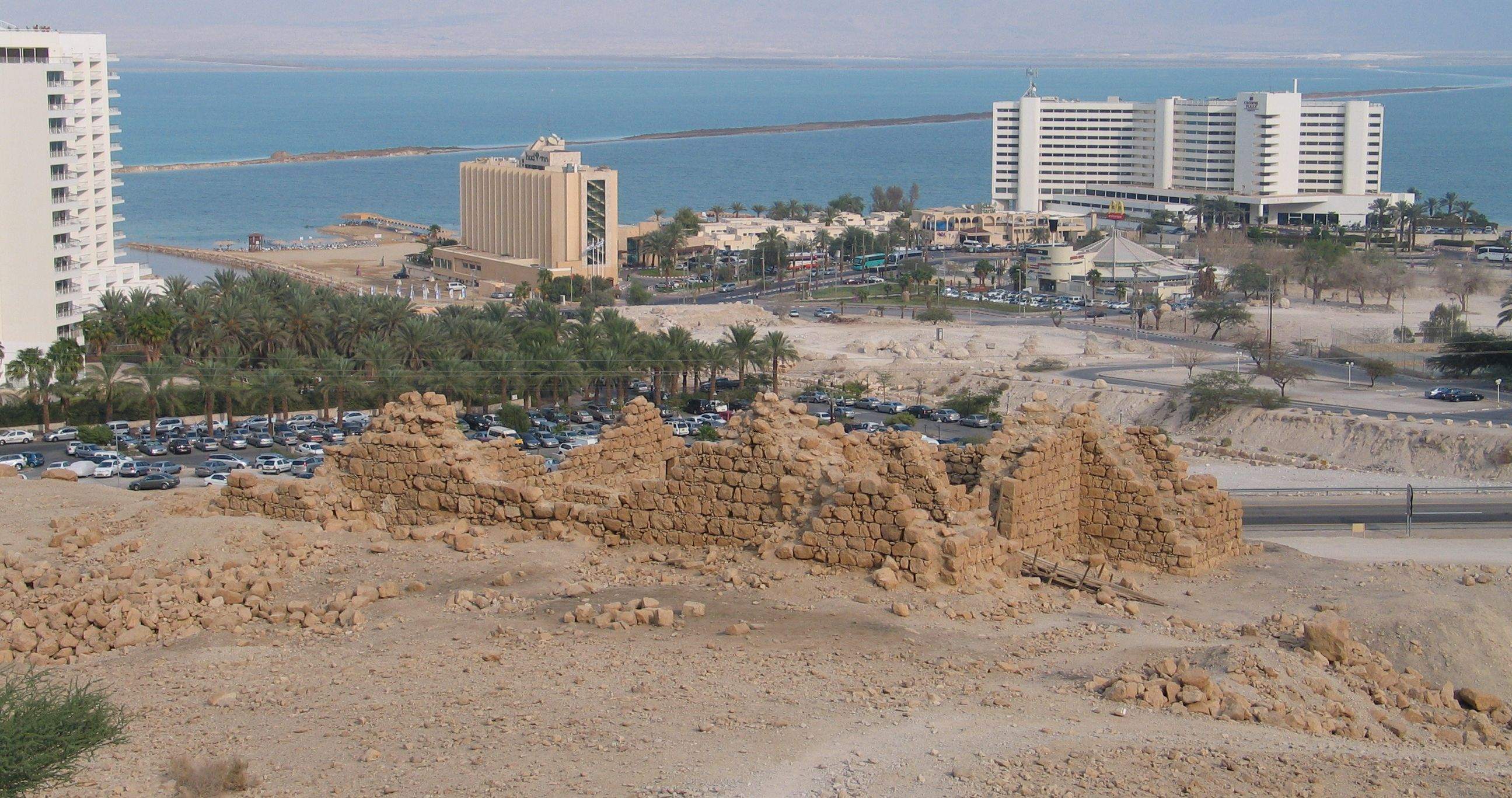 Bokek Stronghold, Ein Bokek, Israel.